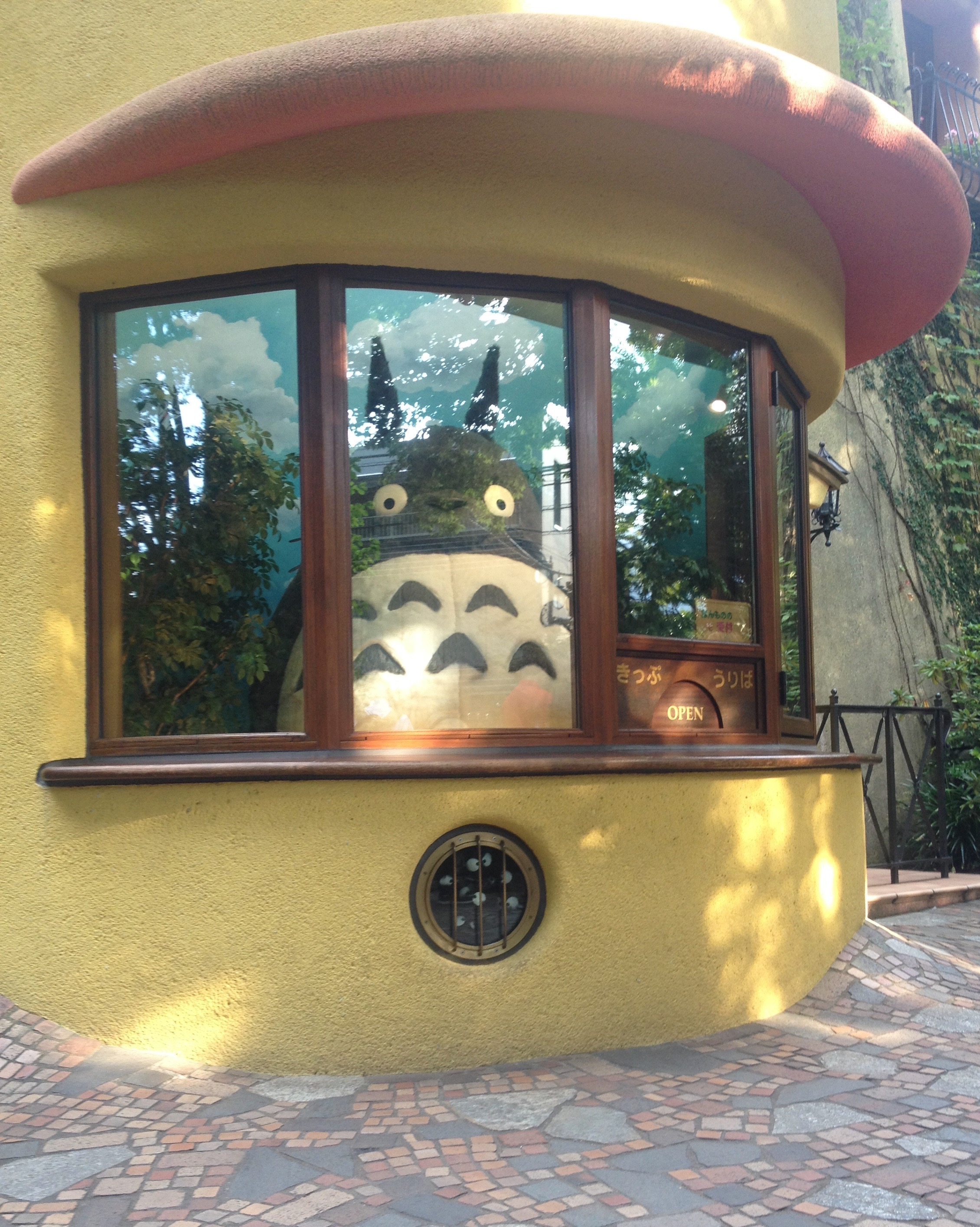 Totoro in the Ghibli Museum's faux box office